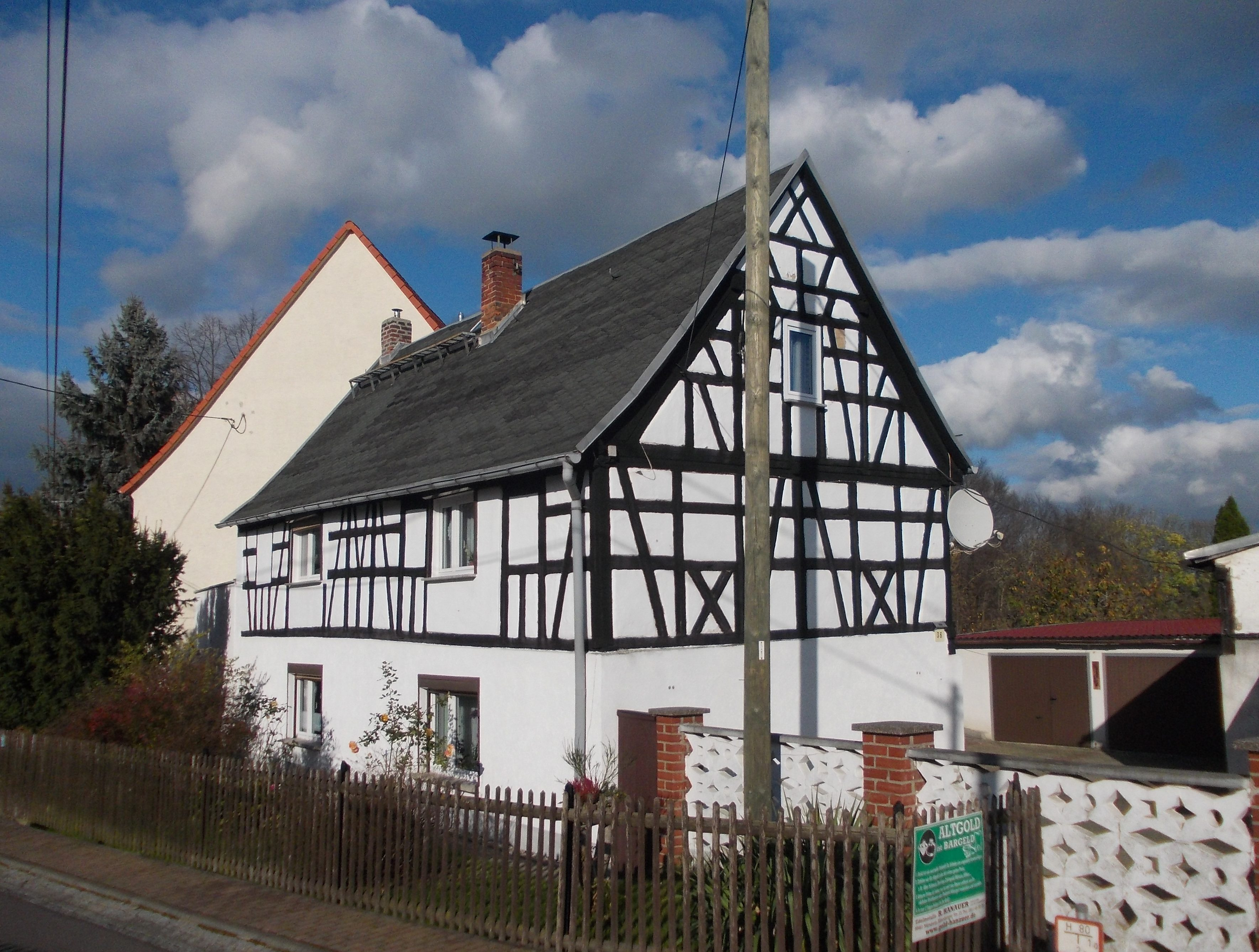 Half-timbered house at Löbnitz estate (Groitzsch, Leipzig district, Saxony)